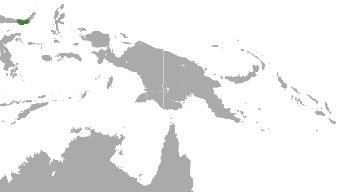 Gorontalo Macaque (Macaca nigrescens) range